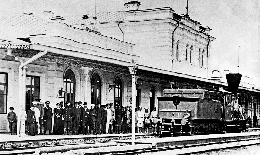 The building of the railway station of the Syzran-Viazemskaya railway in the city of Kaluga, the 1890s